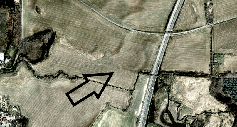 The image is an edited version of a satellite photo with added hill shade. The arrow is pointing at the site which has a clear circular form. (location: Køge (Lellinge), East Denmark)